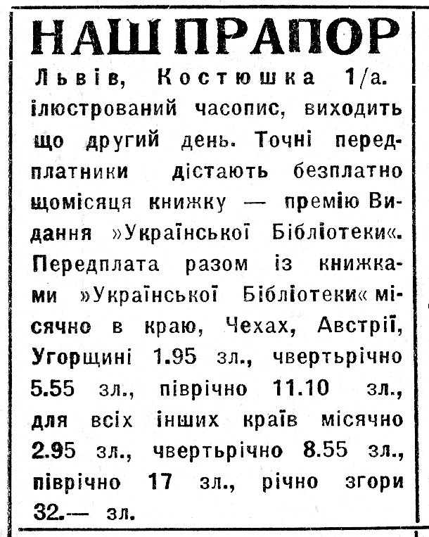 Реклама для газети «Наш Прапор»